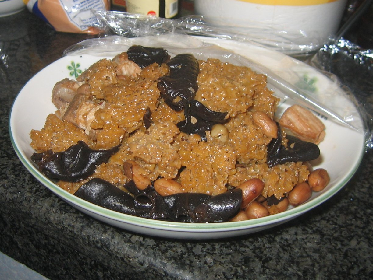 A dish made with baked spongy gluten.中文（香港）: 一道包括烤麩的菜色。